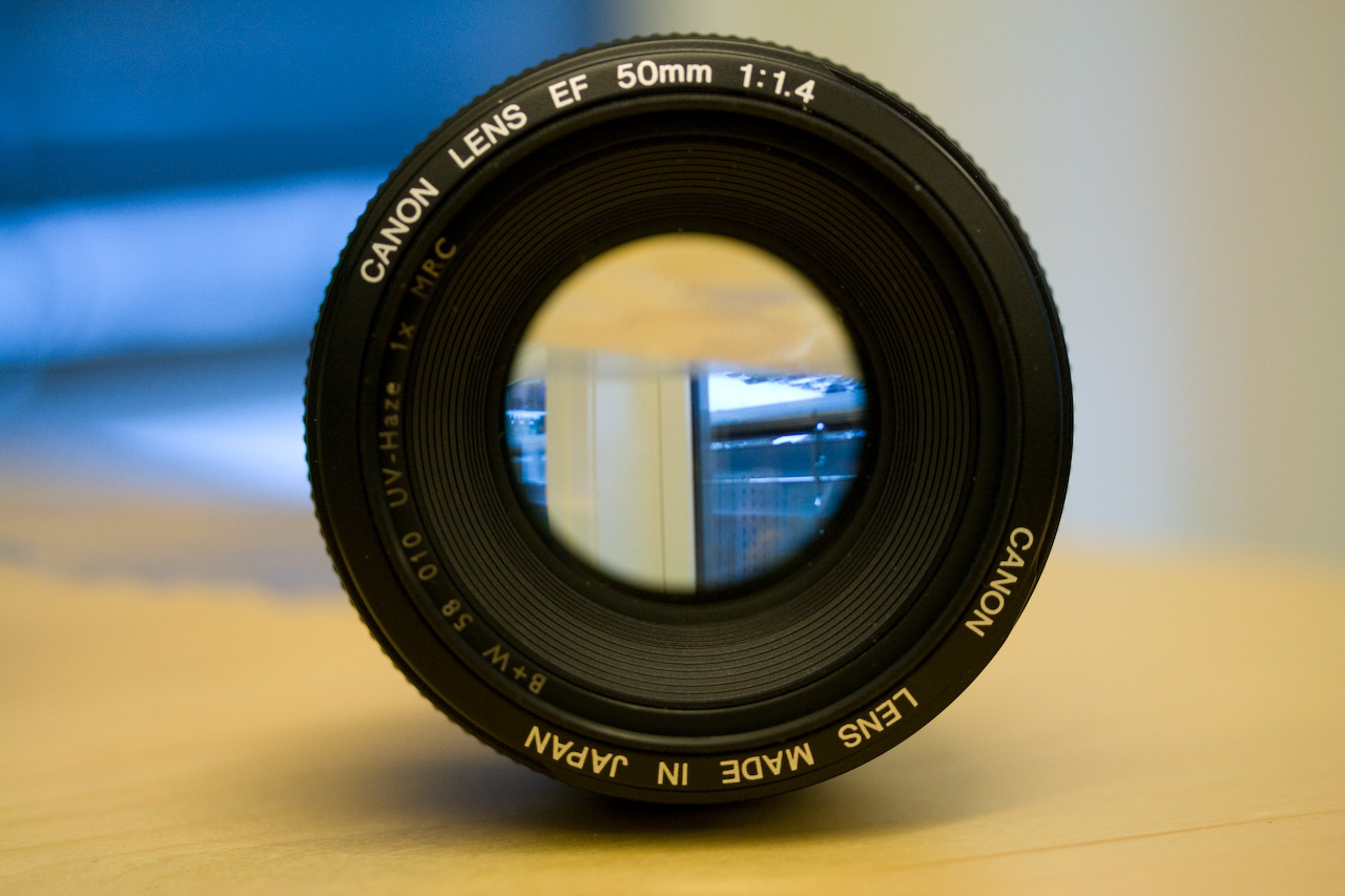 Canon EF 50mm f1.4